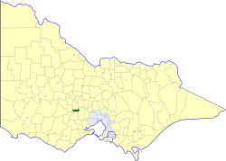 Location of the former Shire of Bungaree within Victoria.